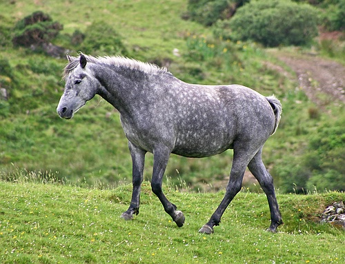 Grey Connemara pony